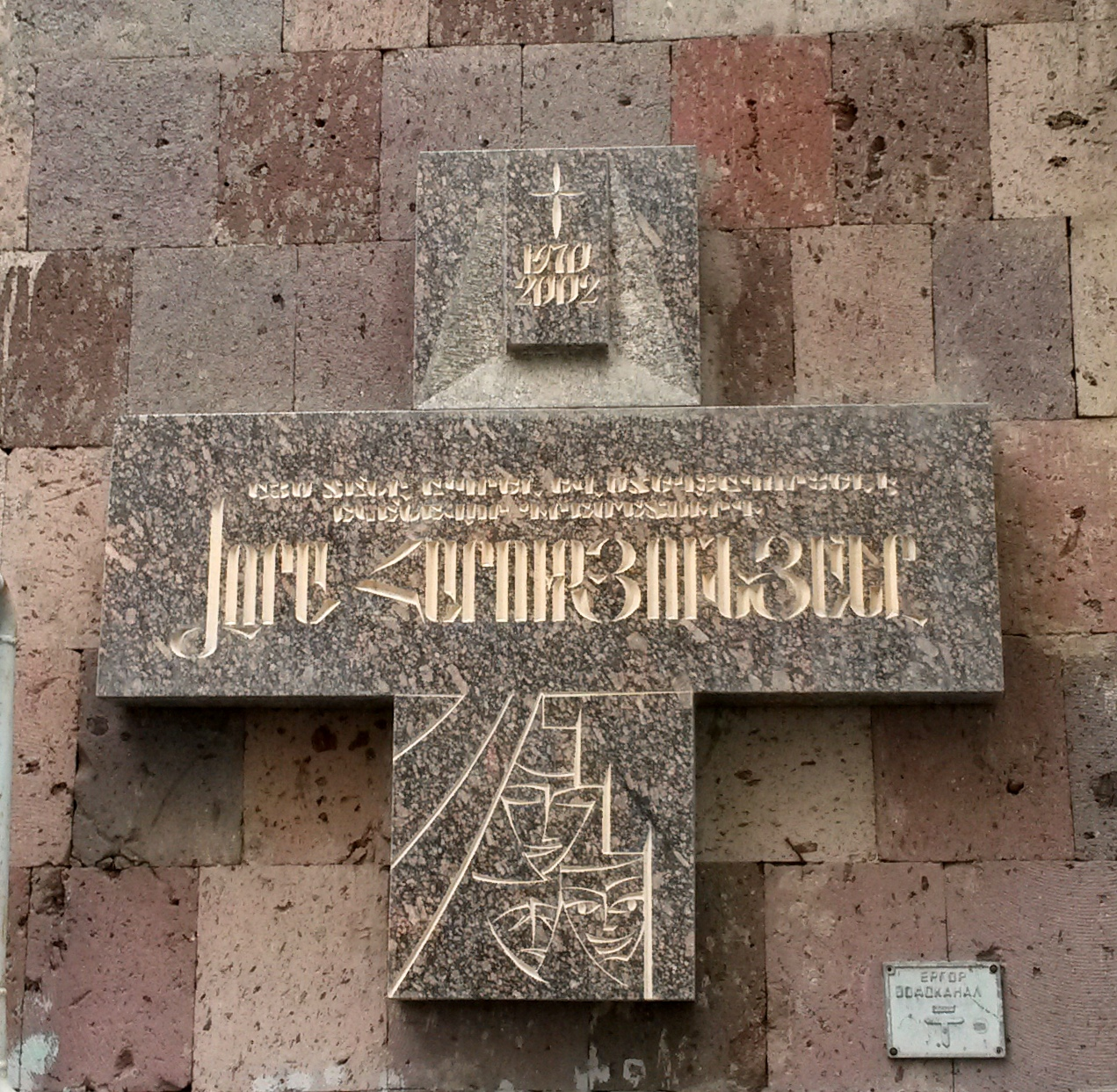 Zhora Harutyunyan's plaque